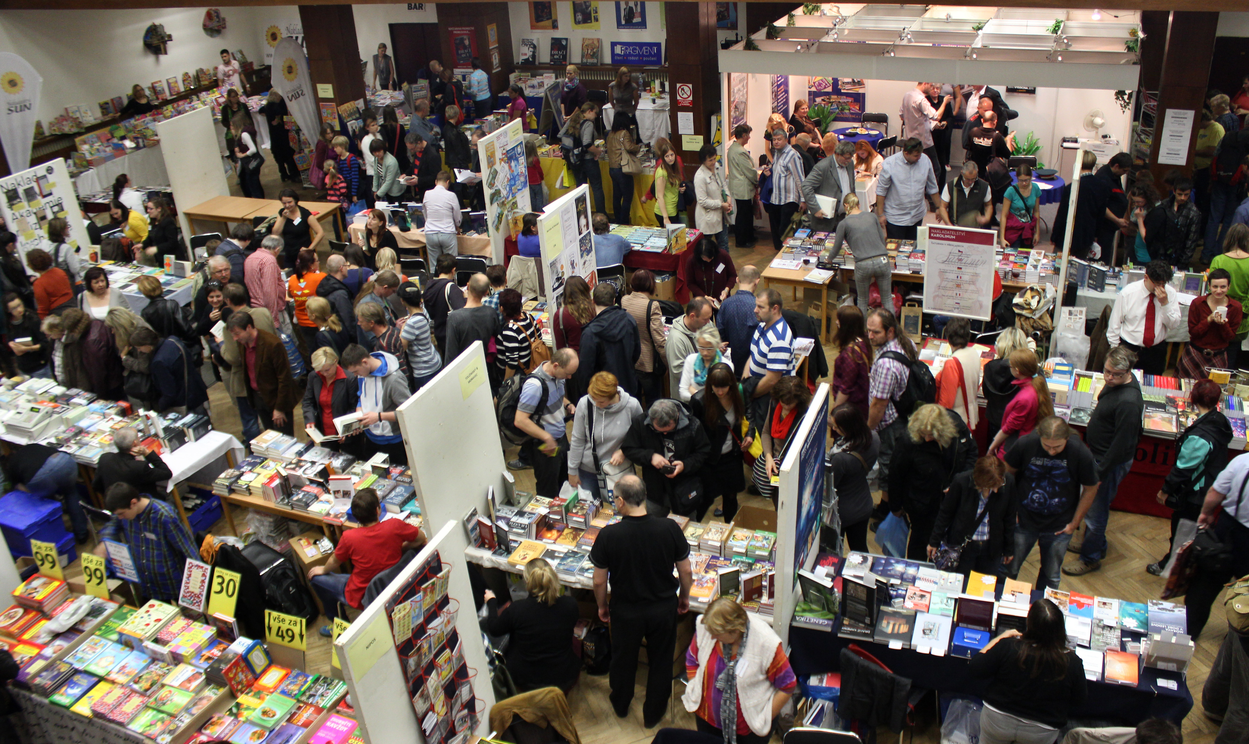 Autumn Book Fair in Havlíčkův Brod, Czech Republic.